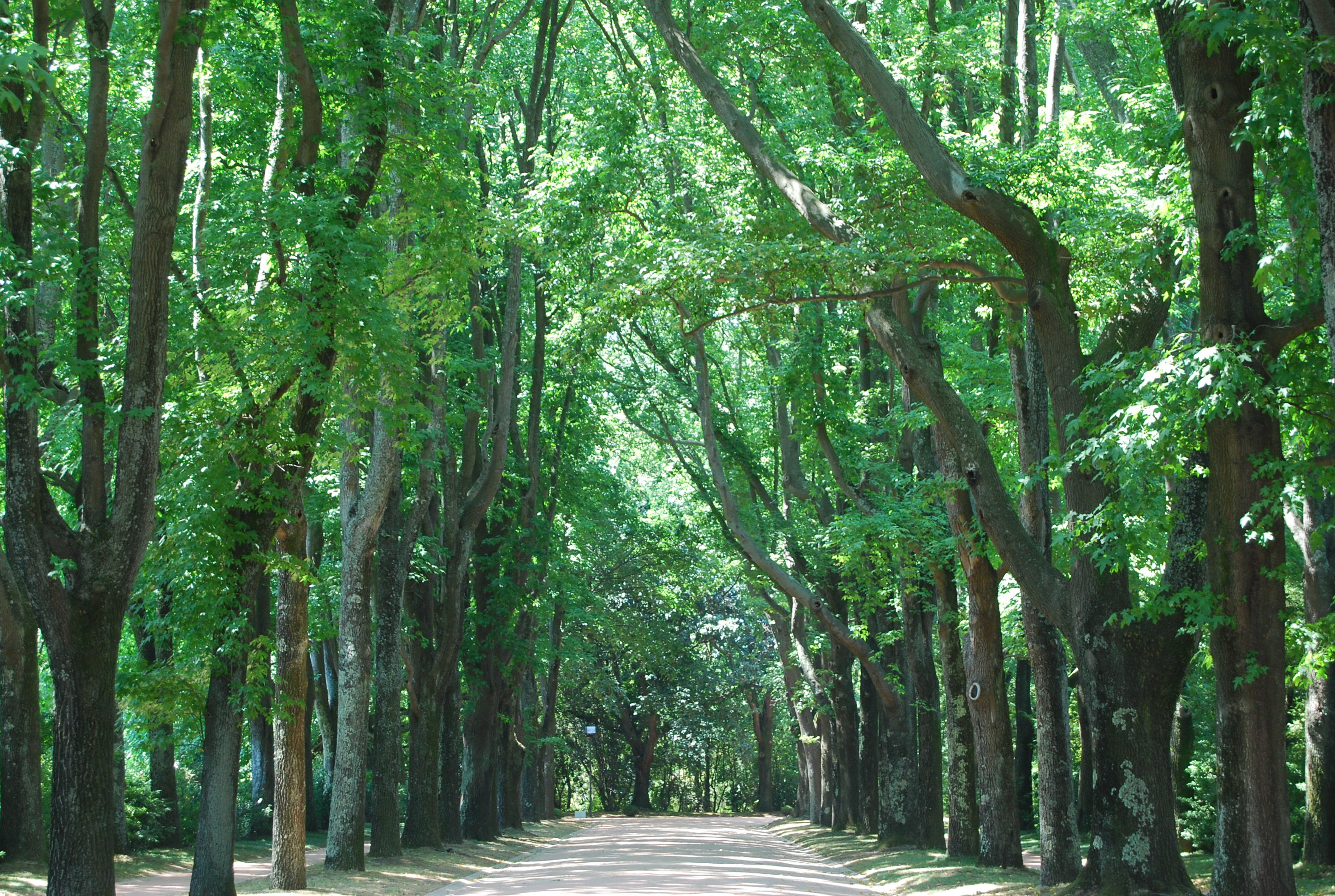 This file was uploaded for Wiki Loves Monuments in Portugal with the unique identifier 74212.